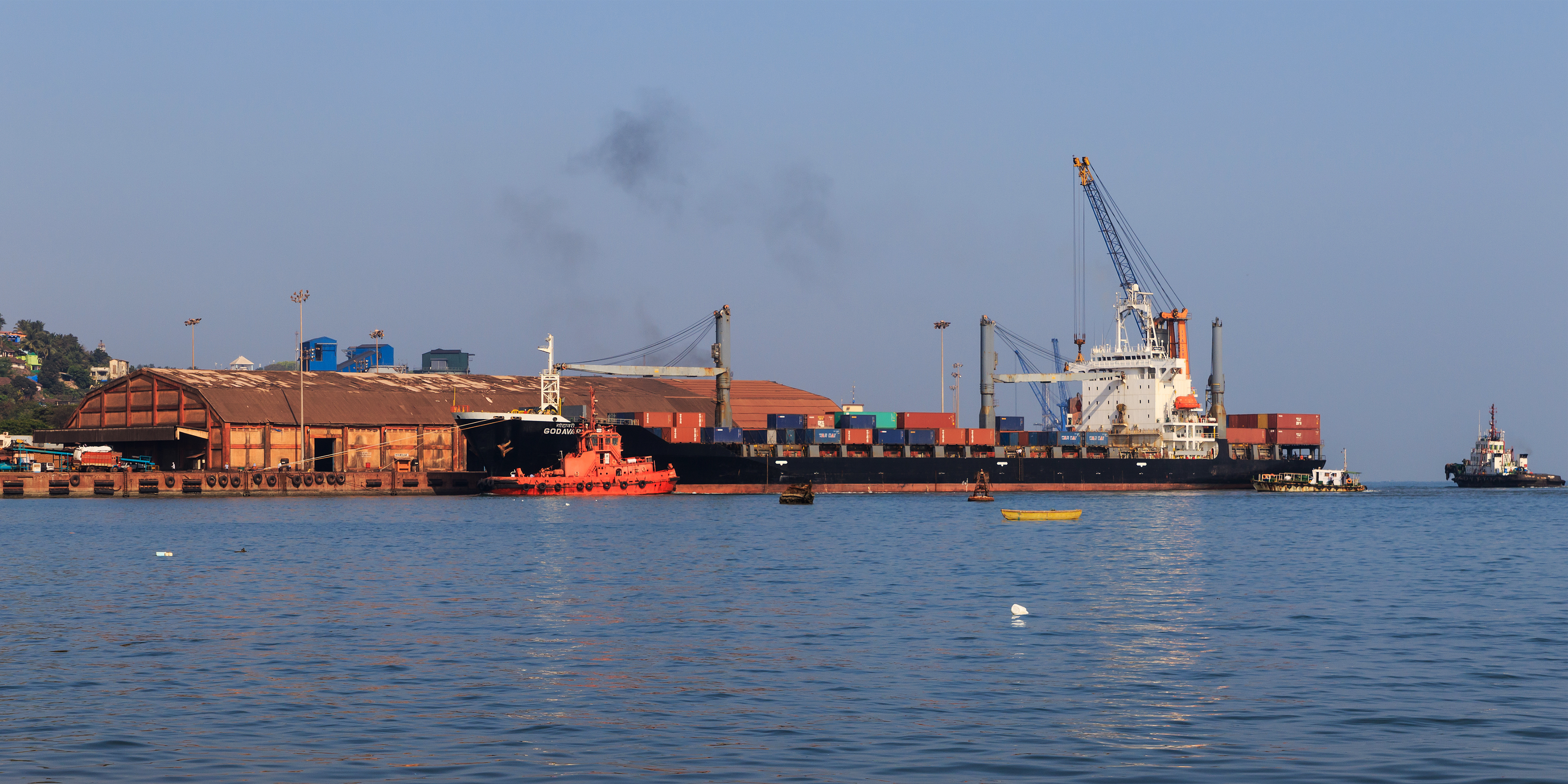 Mormugao Harbour: view from the beach in Vaddem / Vasco da Gama (Goa), India